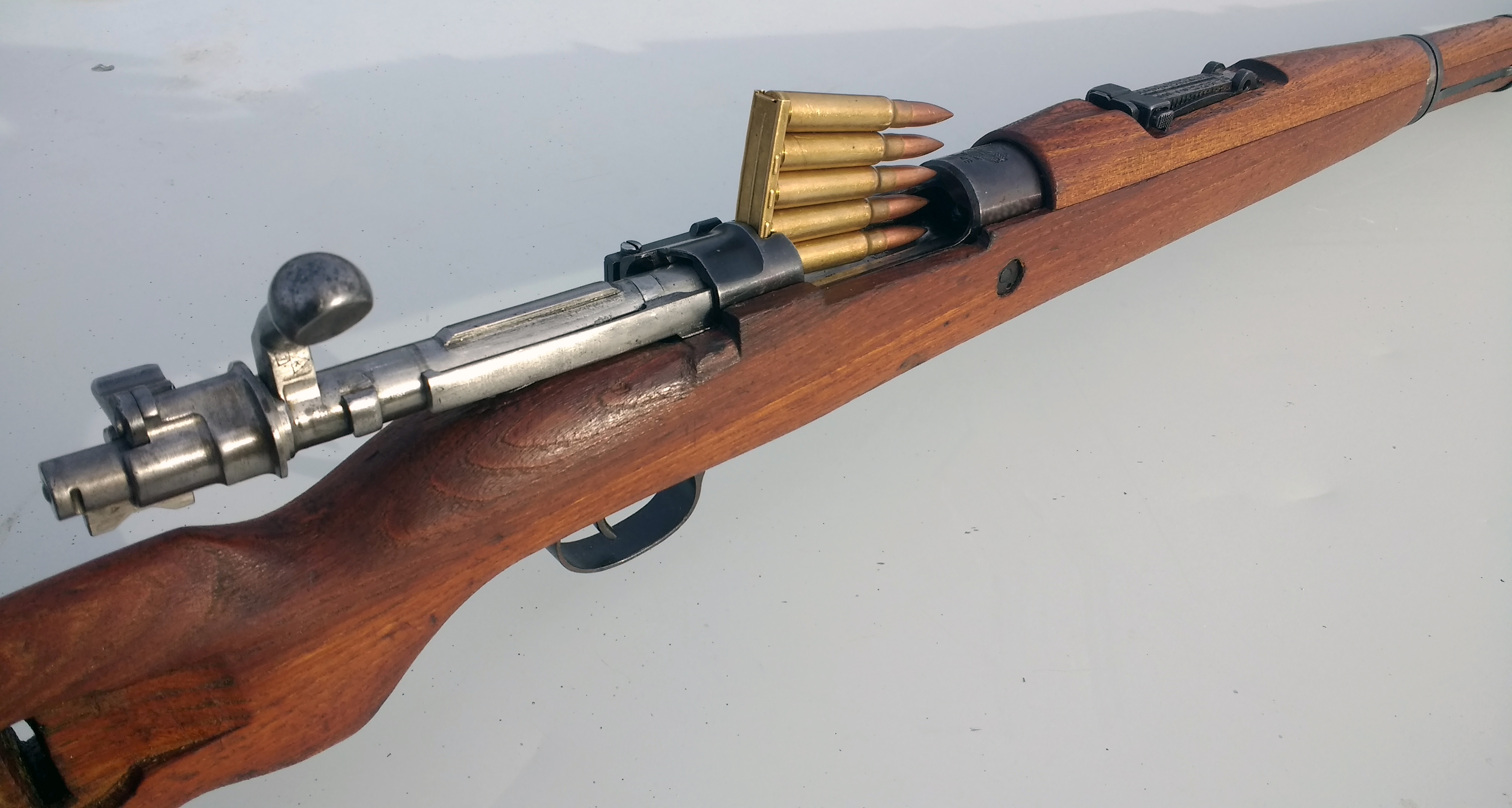 Yugoslavian M48 with stripper clip and Turkish surplus 8mm ammo.